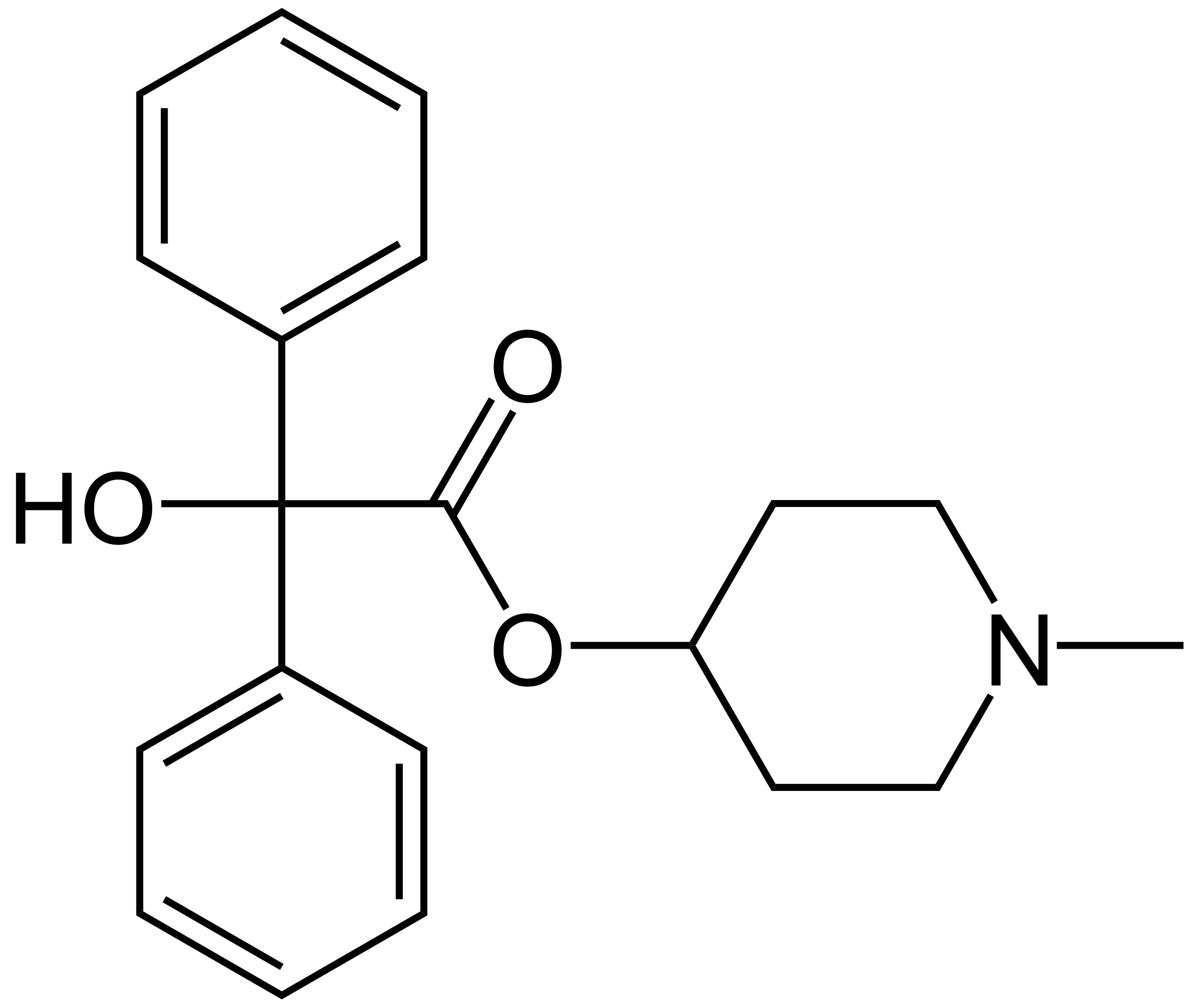 Structure of enpiperate